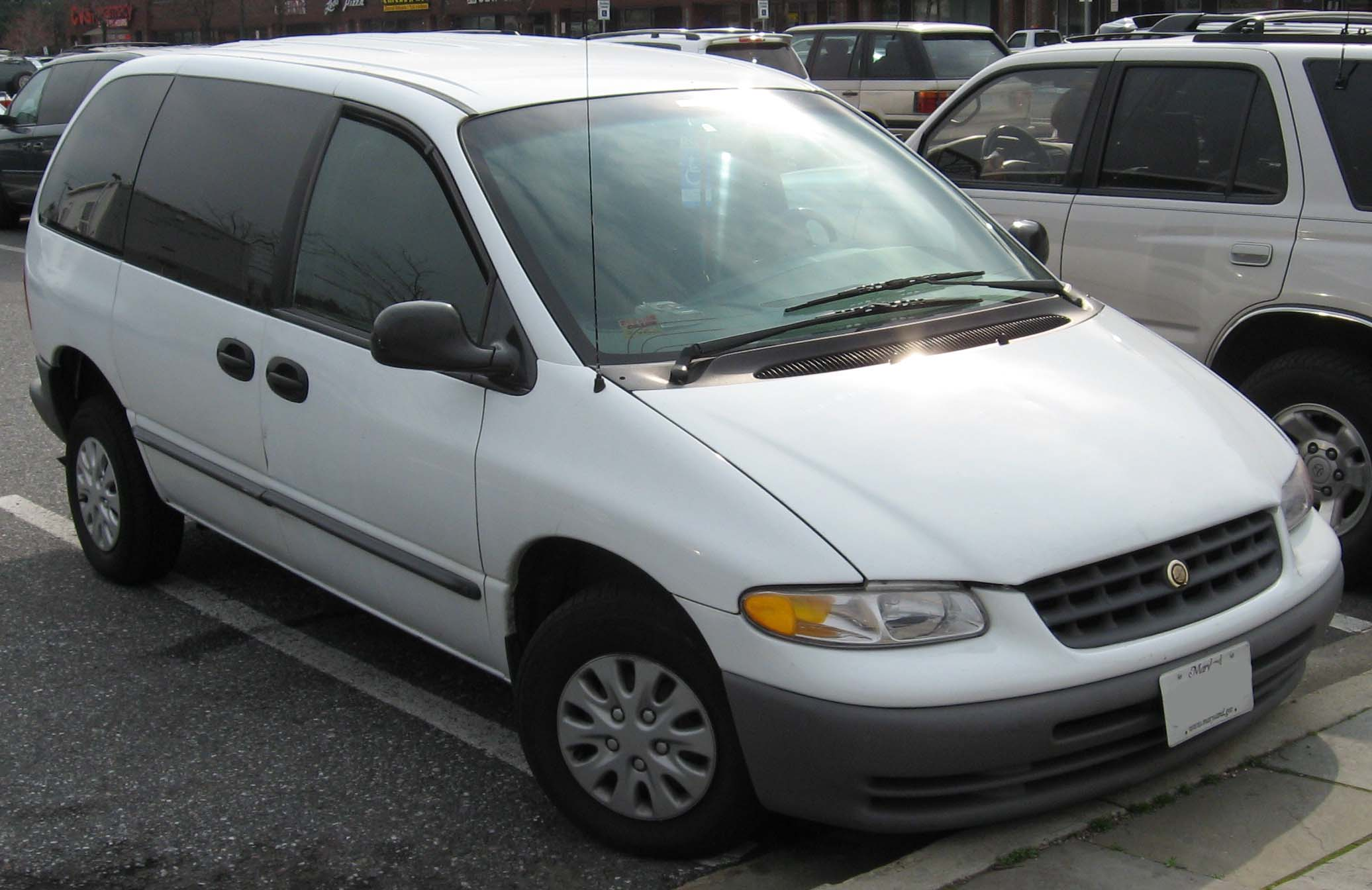 2000 Chrysler Voyager photographed in USA.